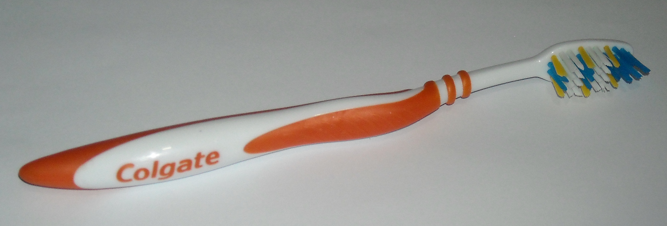 A toothbrush, manufactured by Colgate.